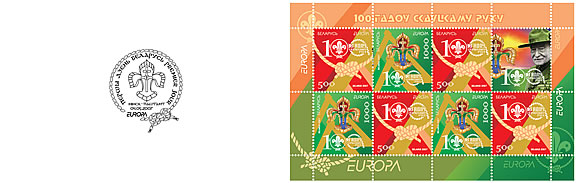 Stamp of Belarus